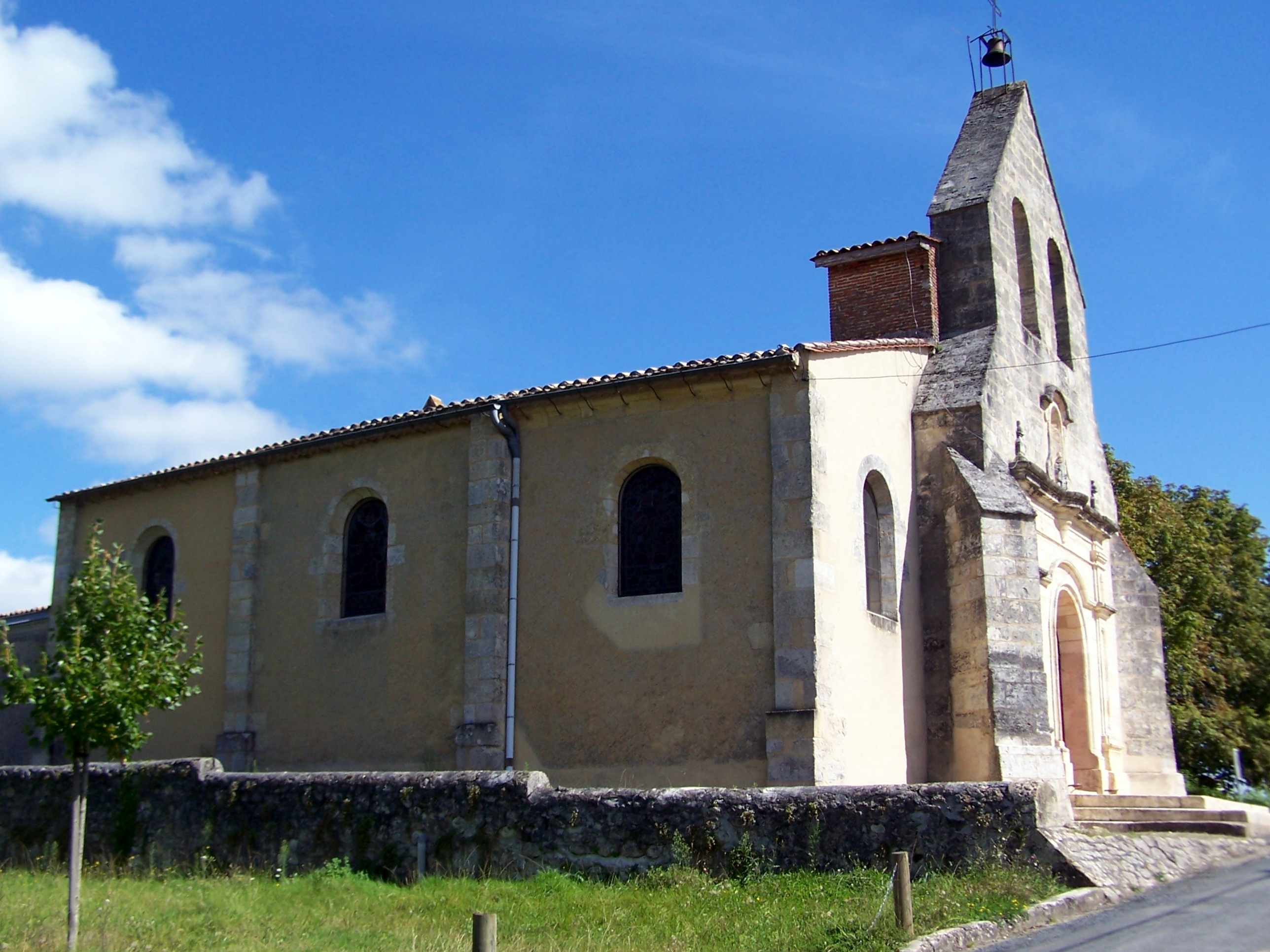 Church Saint-Hippolyte-et-Sainte-Radegonde of Arbanats (Gironde, France)